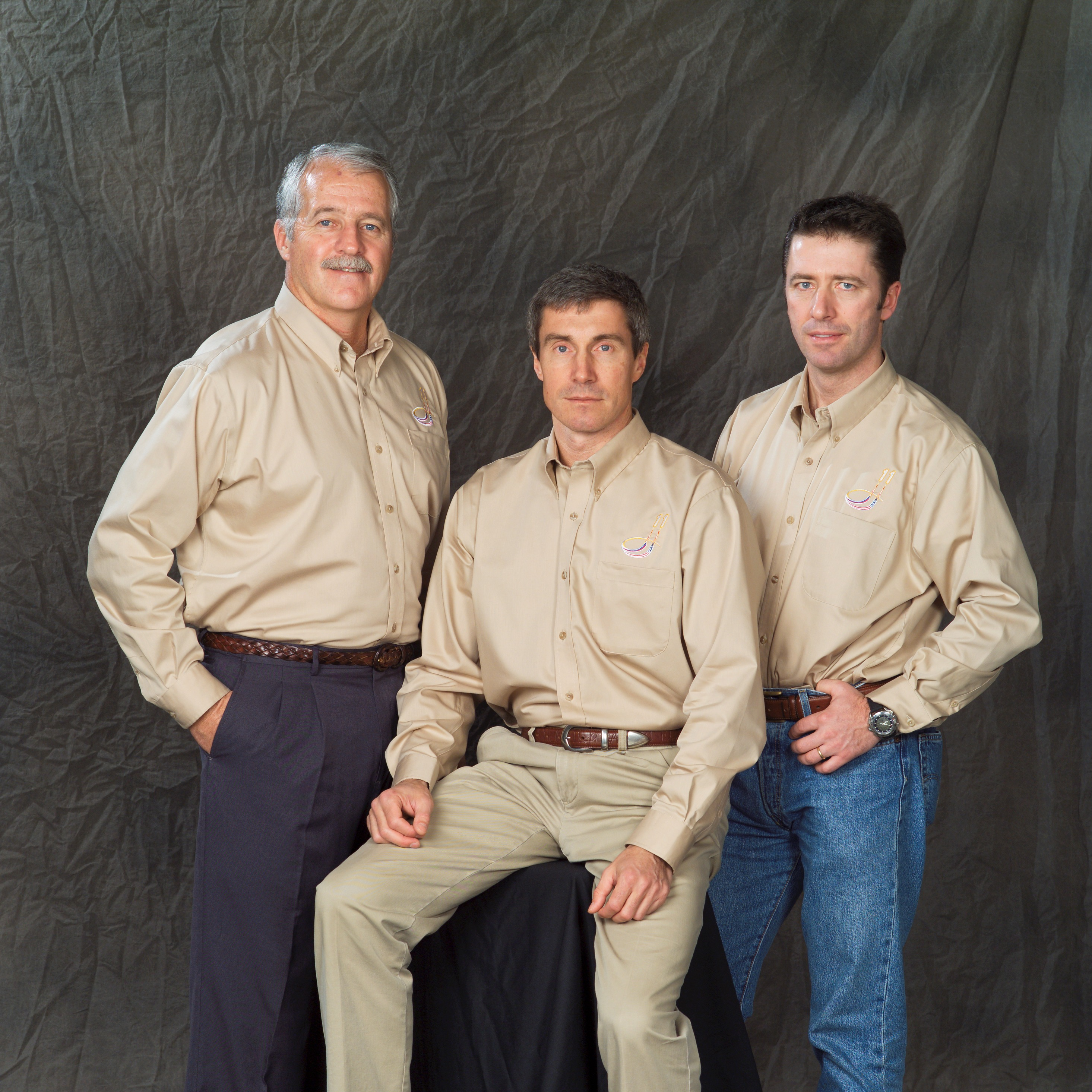 The crew for spacecraft Soyuz TMA-6. From left : John Phillips (USA), Sergei Krikalev (Russia), Roberto Vittori (Italy).